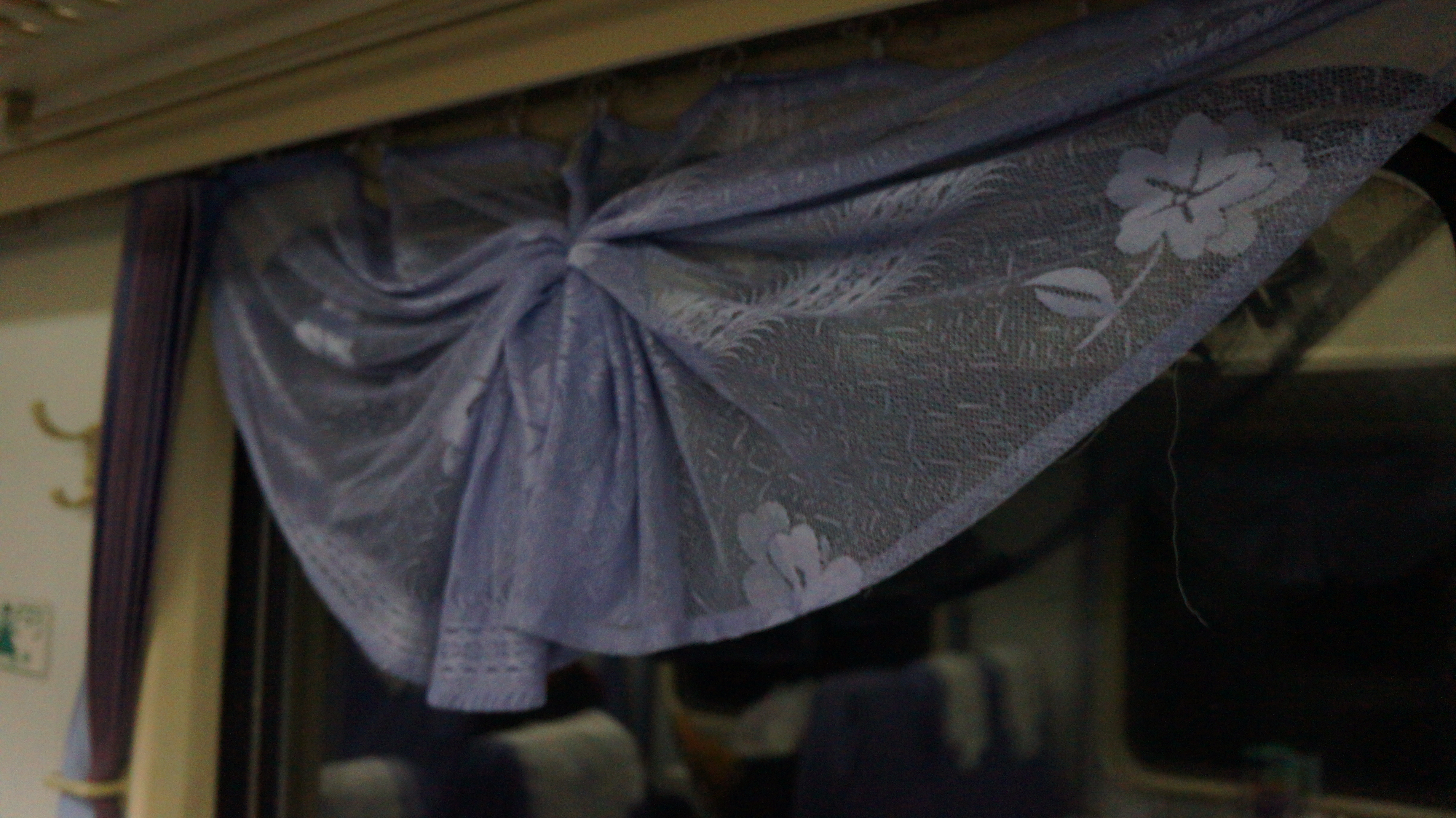 The unique curtain style from the trains by Kunming Railway Bureau